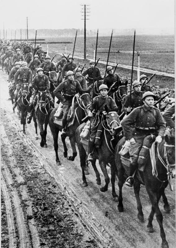 The Polish Army in the Interwar Period Polish lancers on manoeuvres. The Polish Army largely relied on its traditional weapons but was overwhelmed when confronted with modern German equipment and Soviet invasion from the East in September 1939.